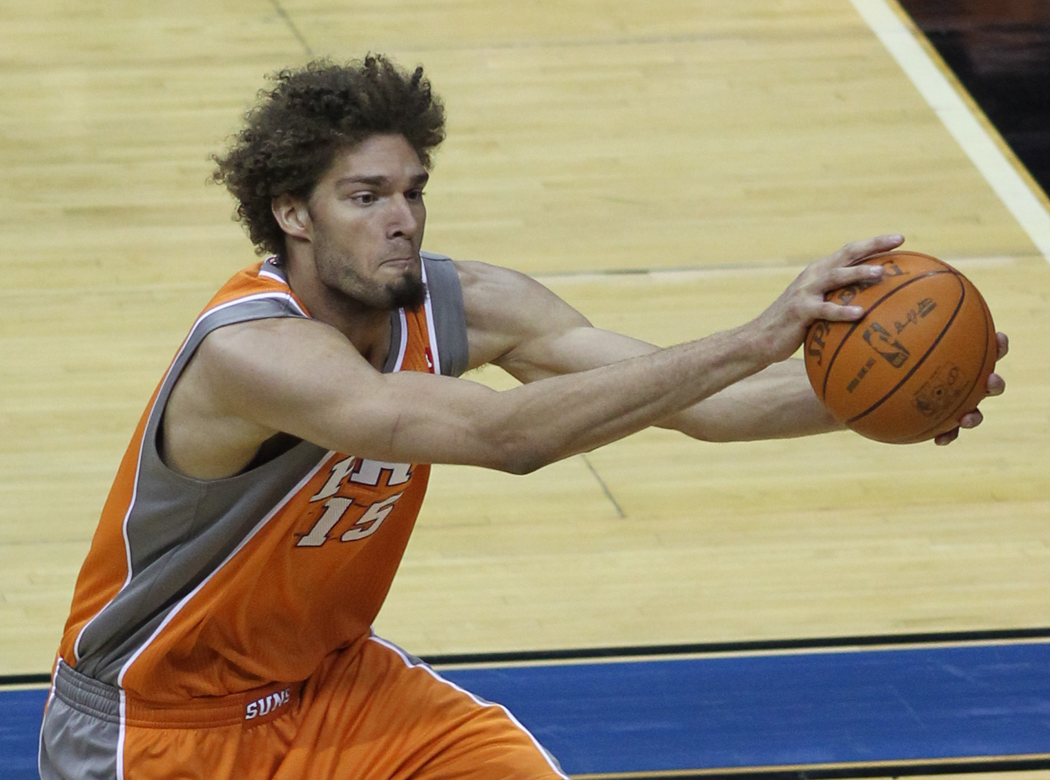 Washington Wizards v/s Phoenix Suns January 21, 2011